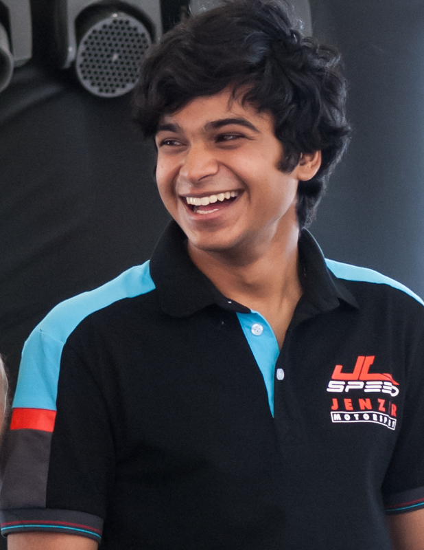 Arjun Maini at Spanish GP 2017